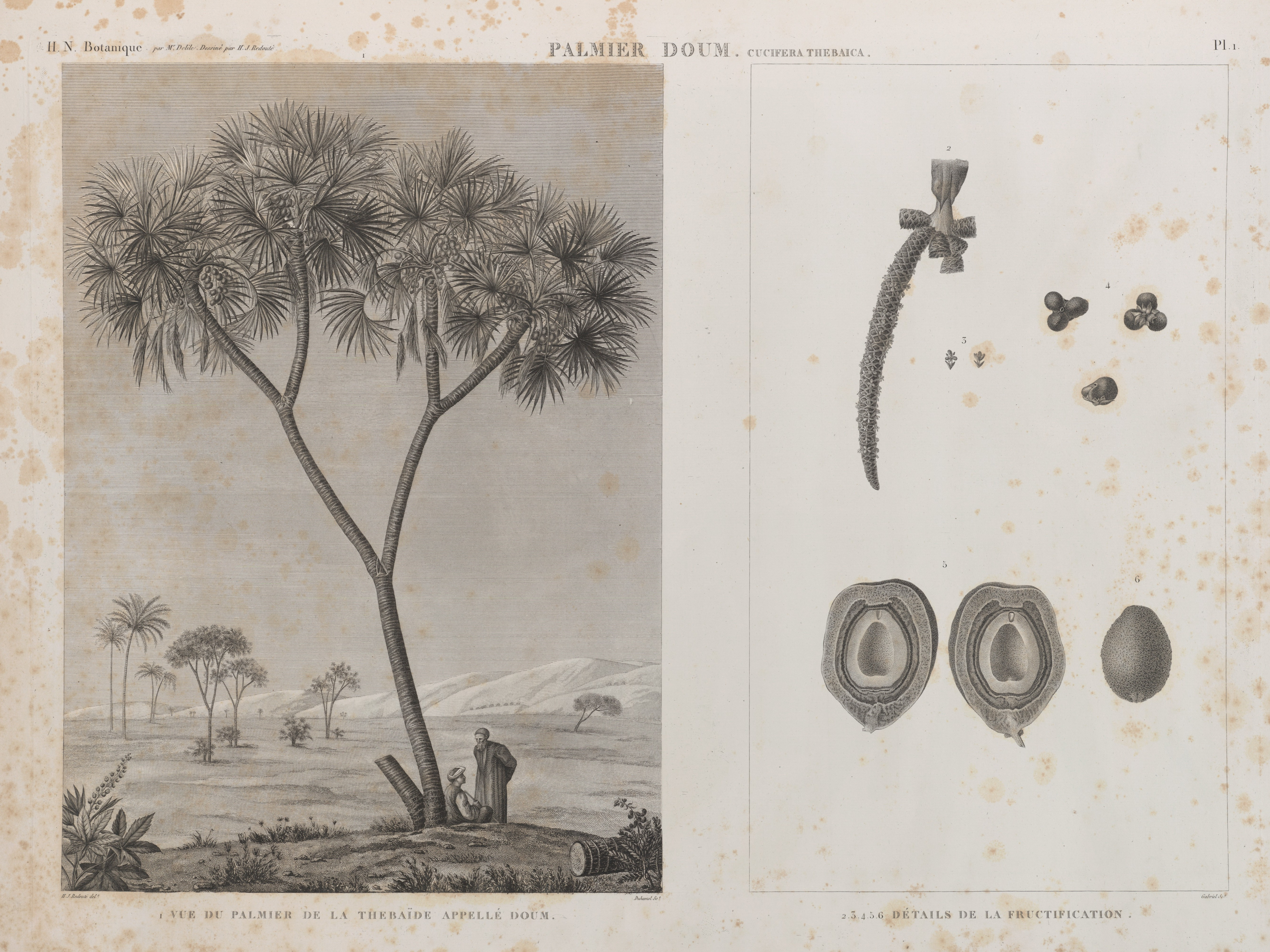 Botanique. Palmier Doum (Cucifera thebaïca). 1. VUe de palmier de la thébaïde appellé Doum; 2-6. Détails de la fructification.